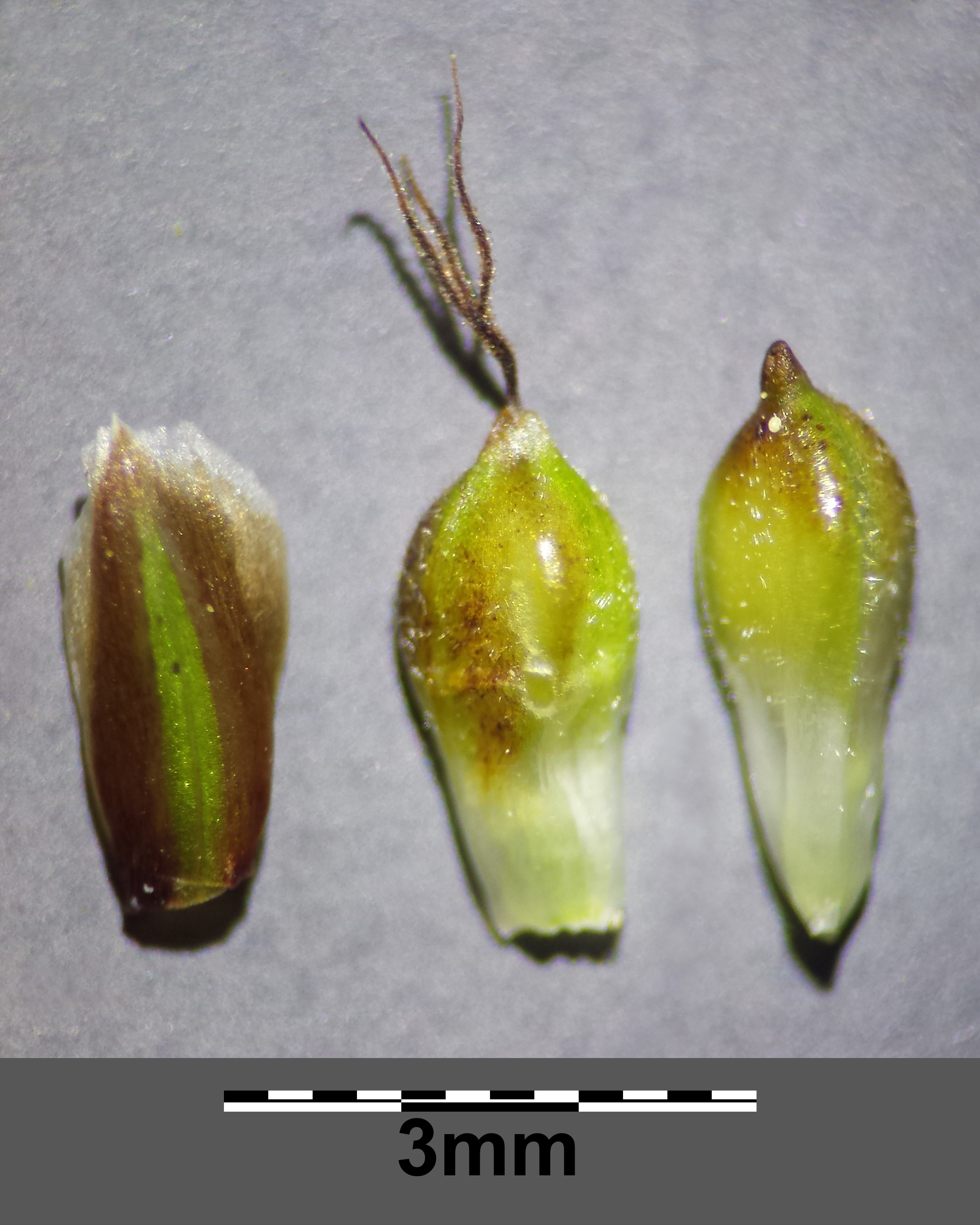 Glume and utricles Taxonym: Carex ornithopoda subsp. ornithopoda ss Fischer et al. EfÖLS 2008 ISBN 978-3-85474-187-9 Location: Kalte Stube near Puch, district Hollabrunn, Lower Austria - ca. 350 m a.s.l. Habitat: semi-dry grassland